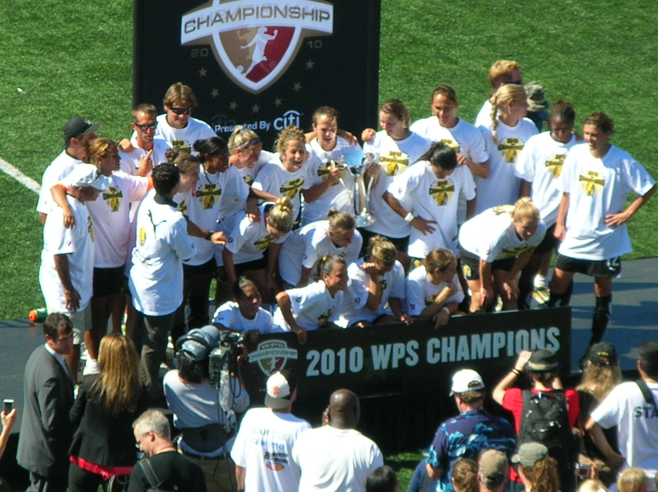 The FC Gold Pride pose with the 2010 WPS Championship Trophy at Pioneer Stadium in Hayward after defeating the Philadelphia Independence 4-0.